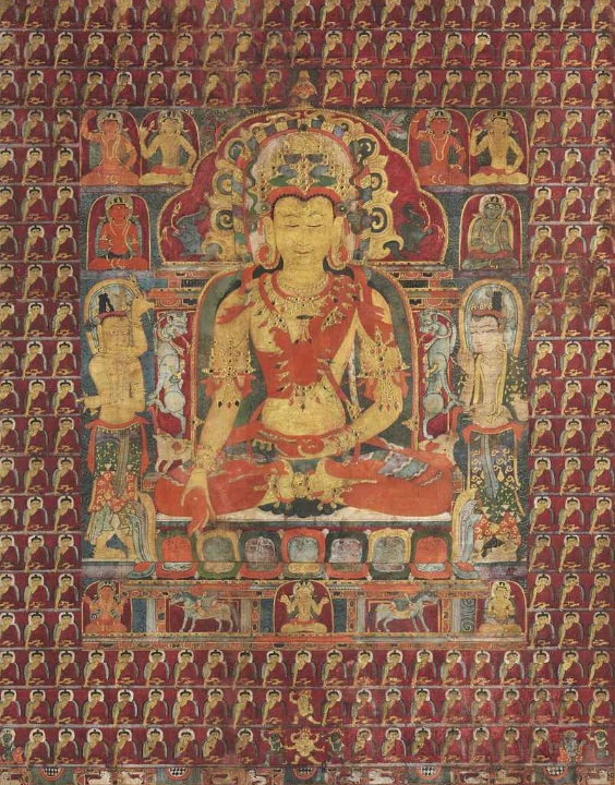 Seated on a lotus base over a throne with blue horses, wearing a multicolored dhoti, orange sash and heavy jewelry and crown highlighted with gilt pastiglia, seated against a tiered backrest with two makaras on the sides and a Garuda above, one standing and three seated bodhisattvas on either side wearing silks and holding various objects, further surrounded by 132 golden Shakyamuni Buddhas arranged in rows, a running motif of alternating lions and horses below with an inscription at bottom There are further figures that have been identified. Along the front of the throne between the blue horses are three of the four female Door Guardians. In the middle for the southern direction is Vajrapashi holding a lasso; at left representing west is Vajrasphota holding a flower garland; and at right representing east is Vajrakushi also holding a flower garland. At the bottom center is a wrathful male figure with one face and six hands, yellow in colour. At the bottom right side is the Direction Guardian of the south, blue Yama riding a brown buffalo. Seated alongside is the Guardian King of the South, Virudhaka, blue in color, holding a long sword with the right hand and the scabbard in the left, wearing a helmet and the garments of a warrior. At the bottom left is the Direction Guardian of the southwest, Rakshasa, blue.